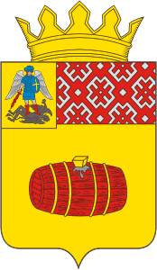 Velsk (Arkhangelsk oblast), coat of arms